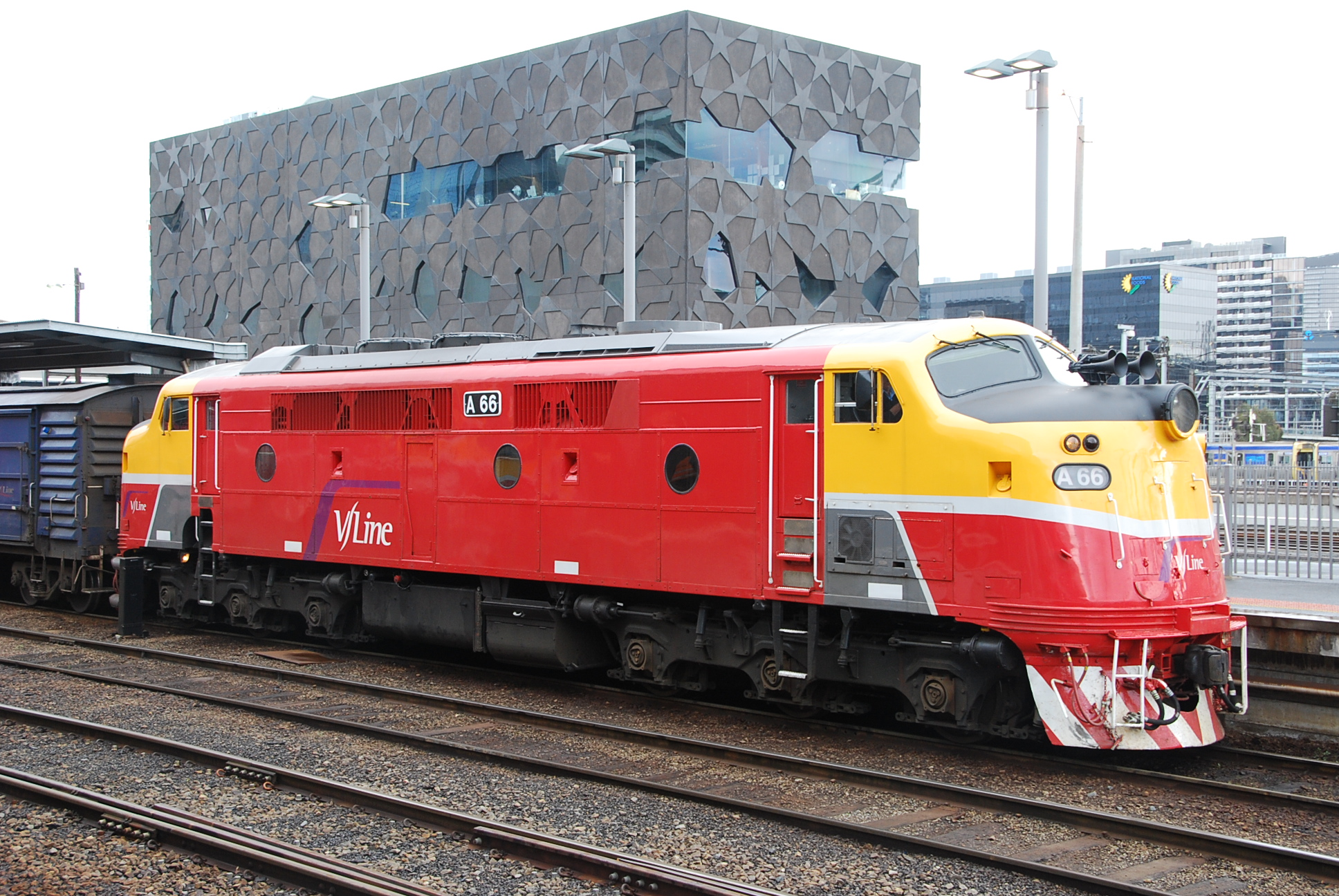 A66 in current V/Line livery at Southern Cross, Melbourne.